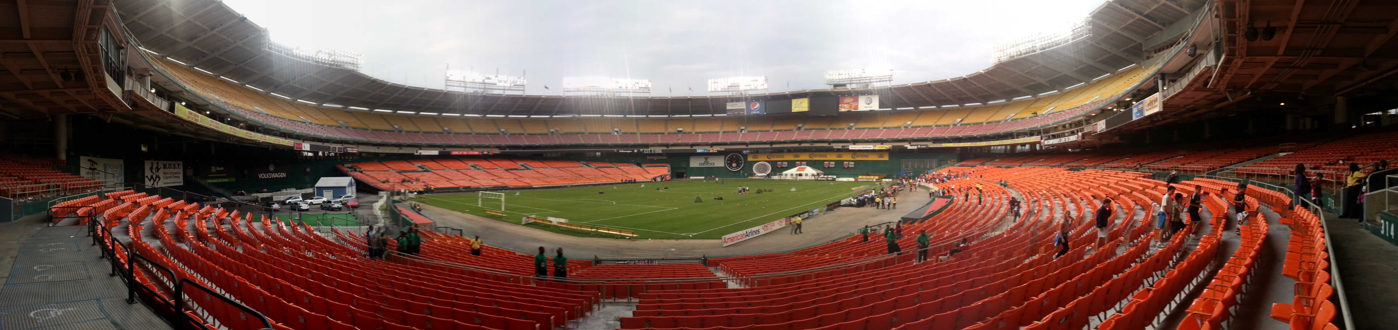 Pamaramic